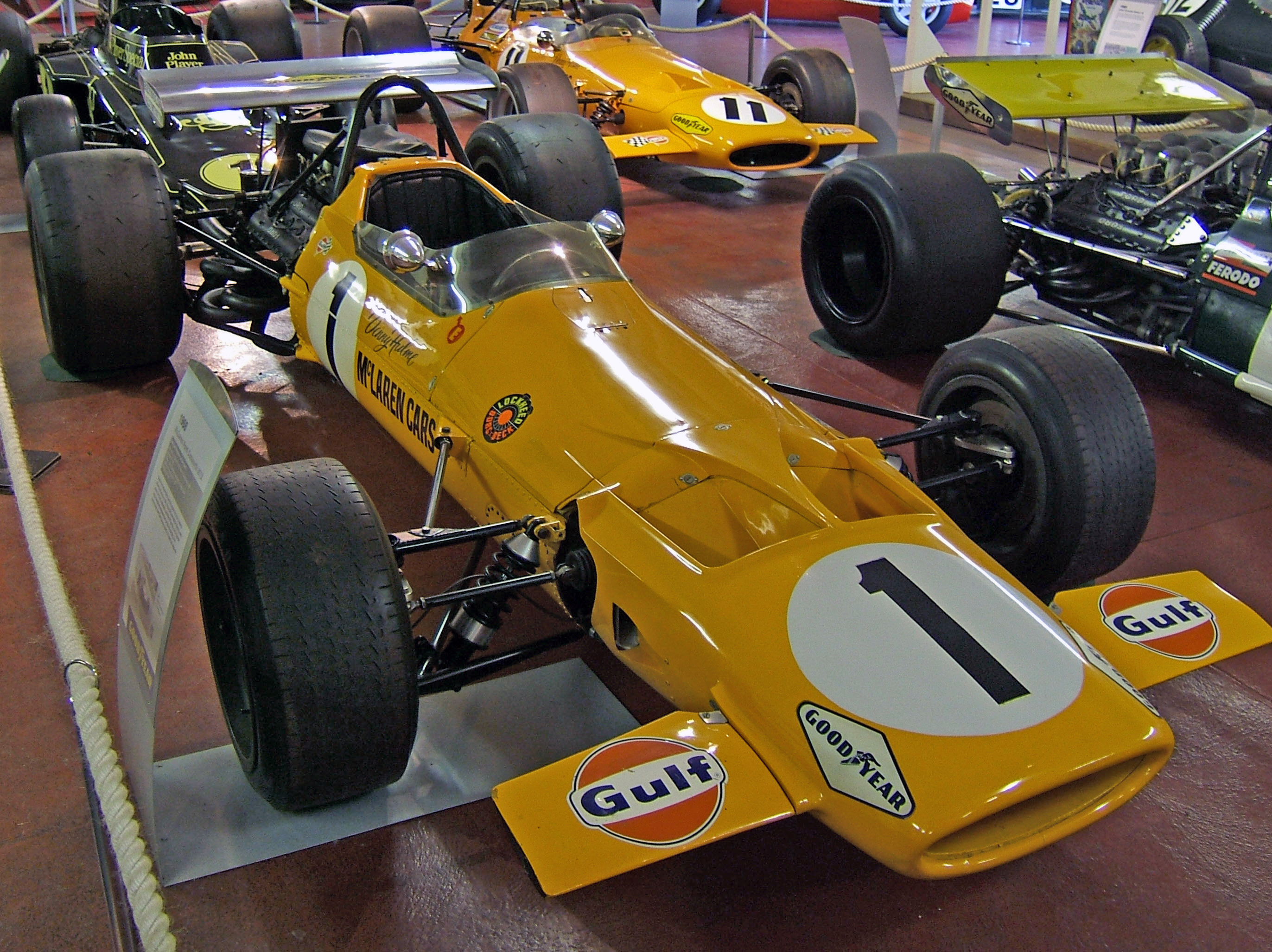 A McLaren M7A Formula One car (1968). In the Donington Grand Prix Collection museum, Leics., UK.